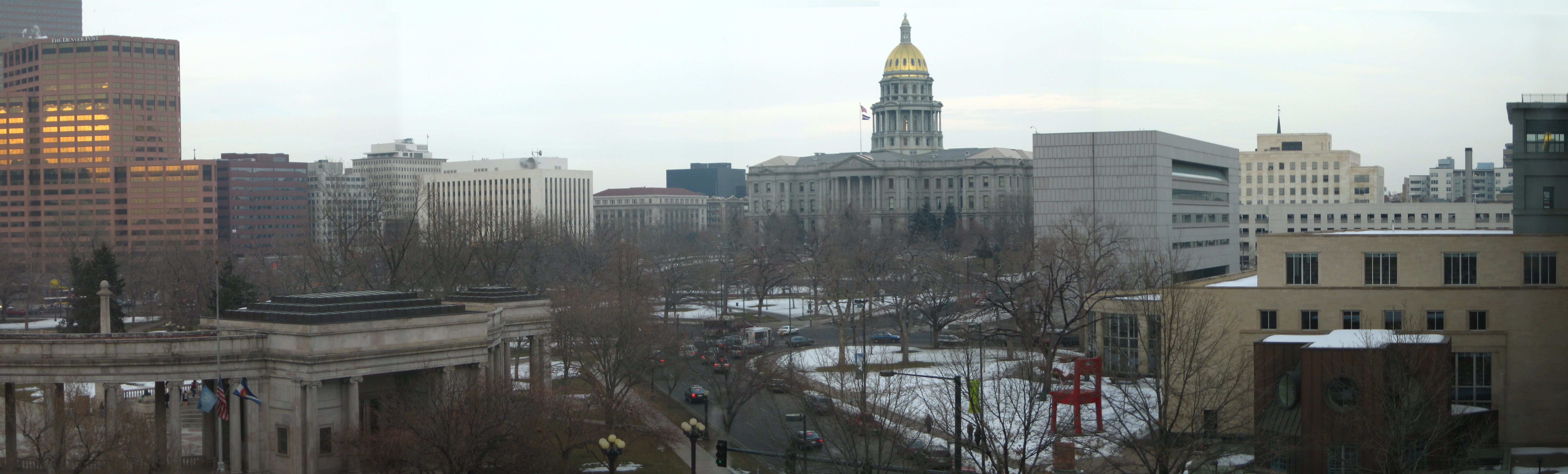 Winter view of Denver Civic Center and Colorado State Capitol Building from the Art Museum.